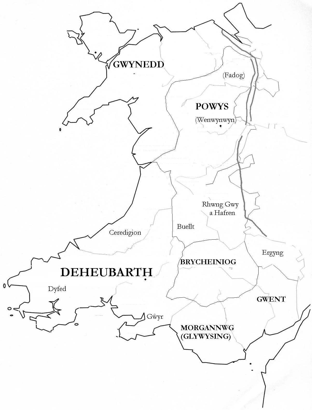 Made by self